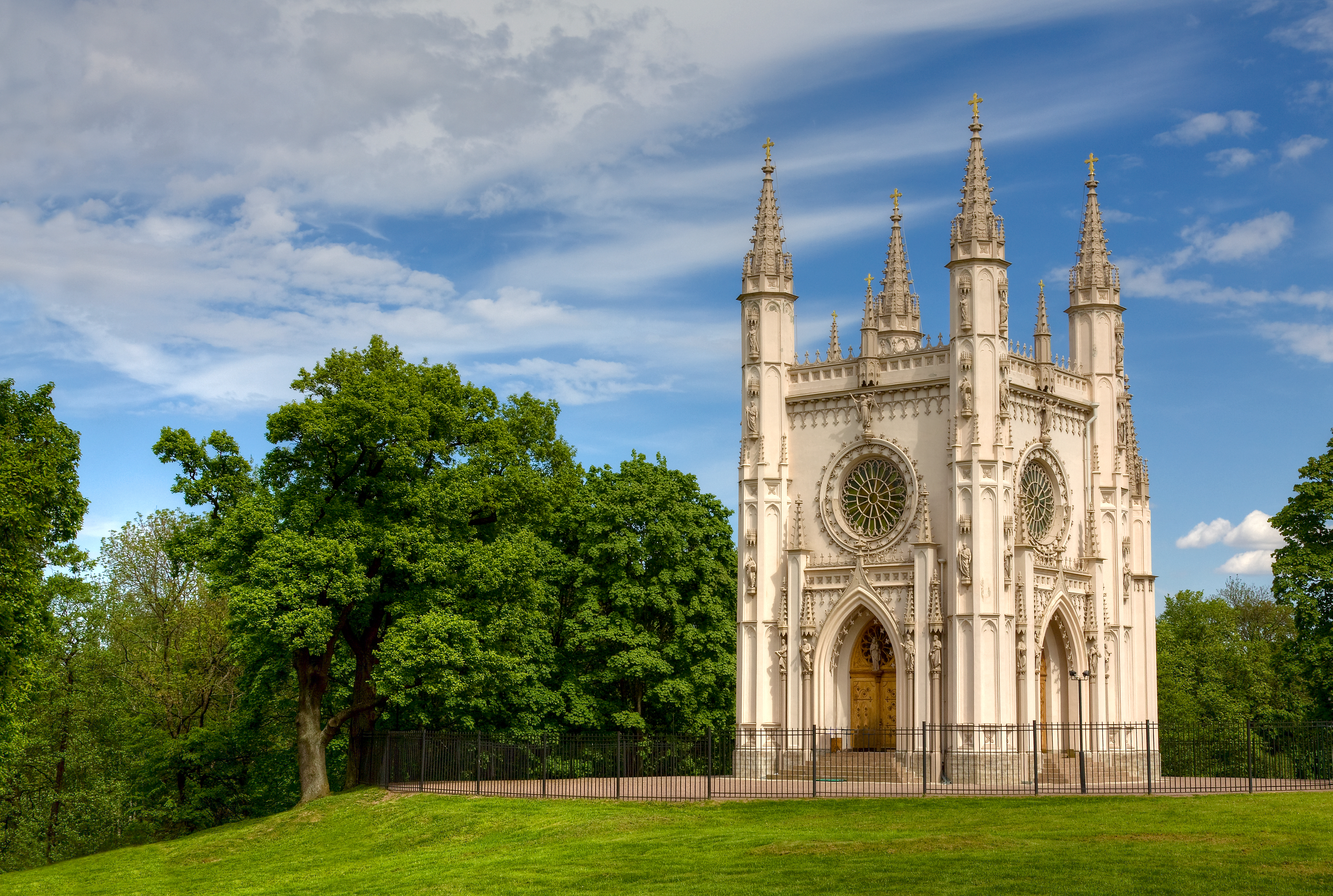 Saint Alexander Nevsky Church in Petergof, Saint Petersburg, Russia.